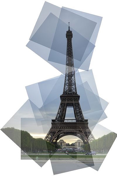 Panography of Eiffel Tower with transparent background